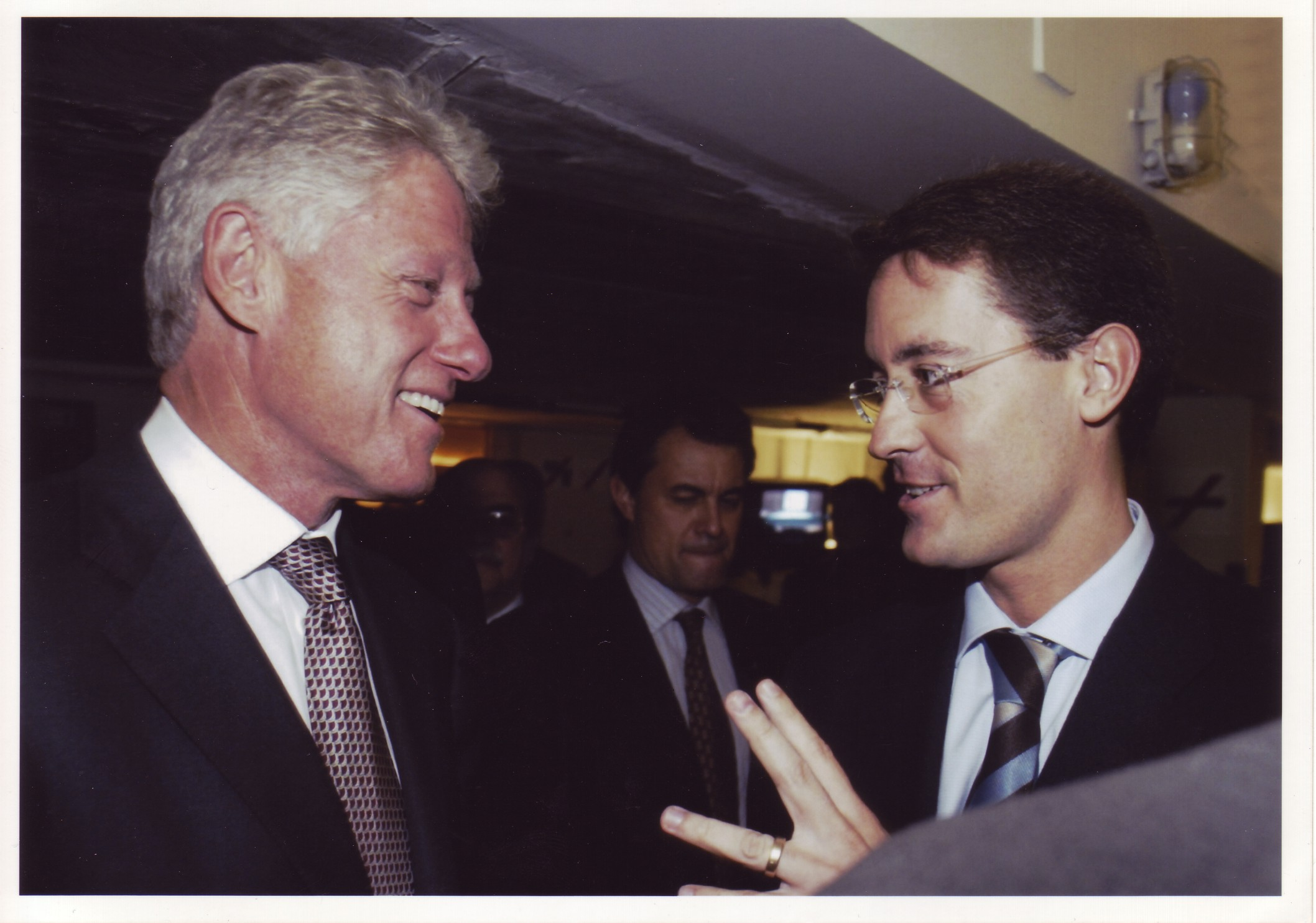 Bill Clinton (left) and Sr. José Daniel Barquero (right).